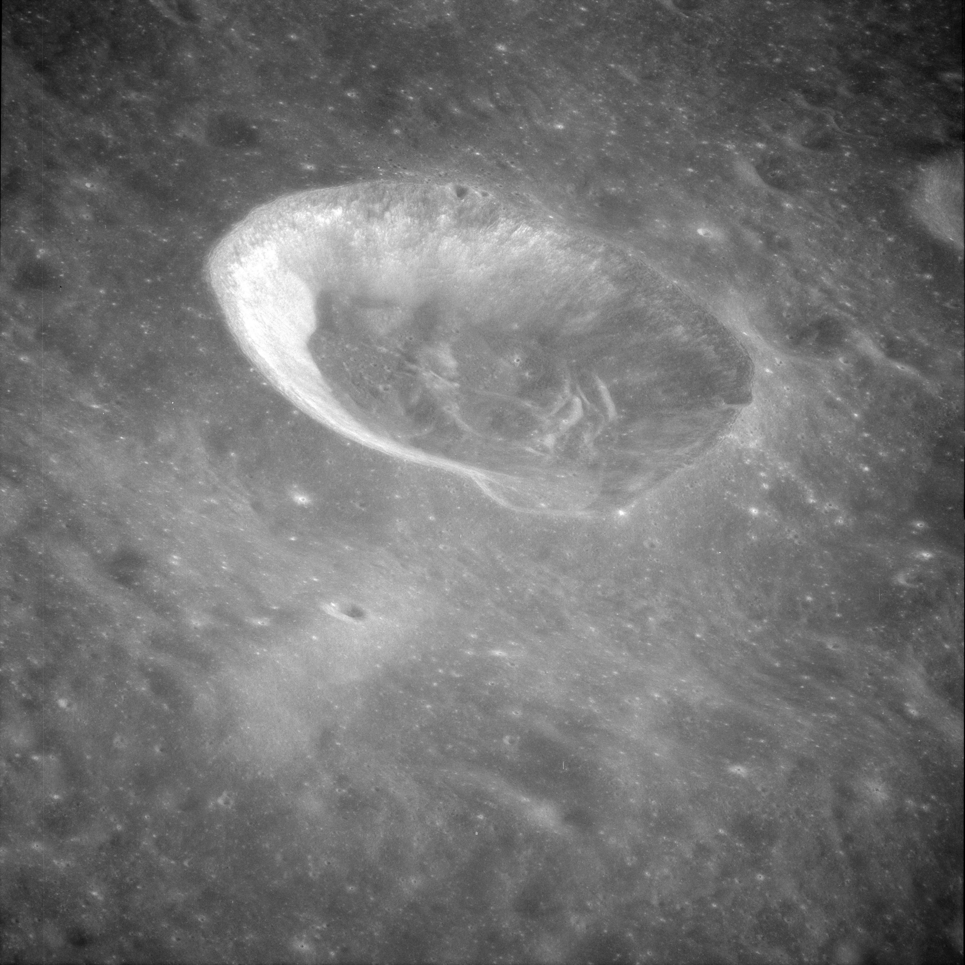 Oblique view of Pannekoek T crater, near Pannekoek, on the far side of the moon.